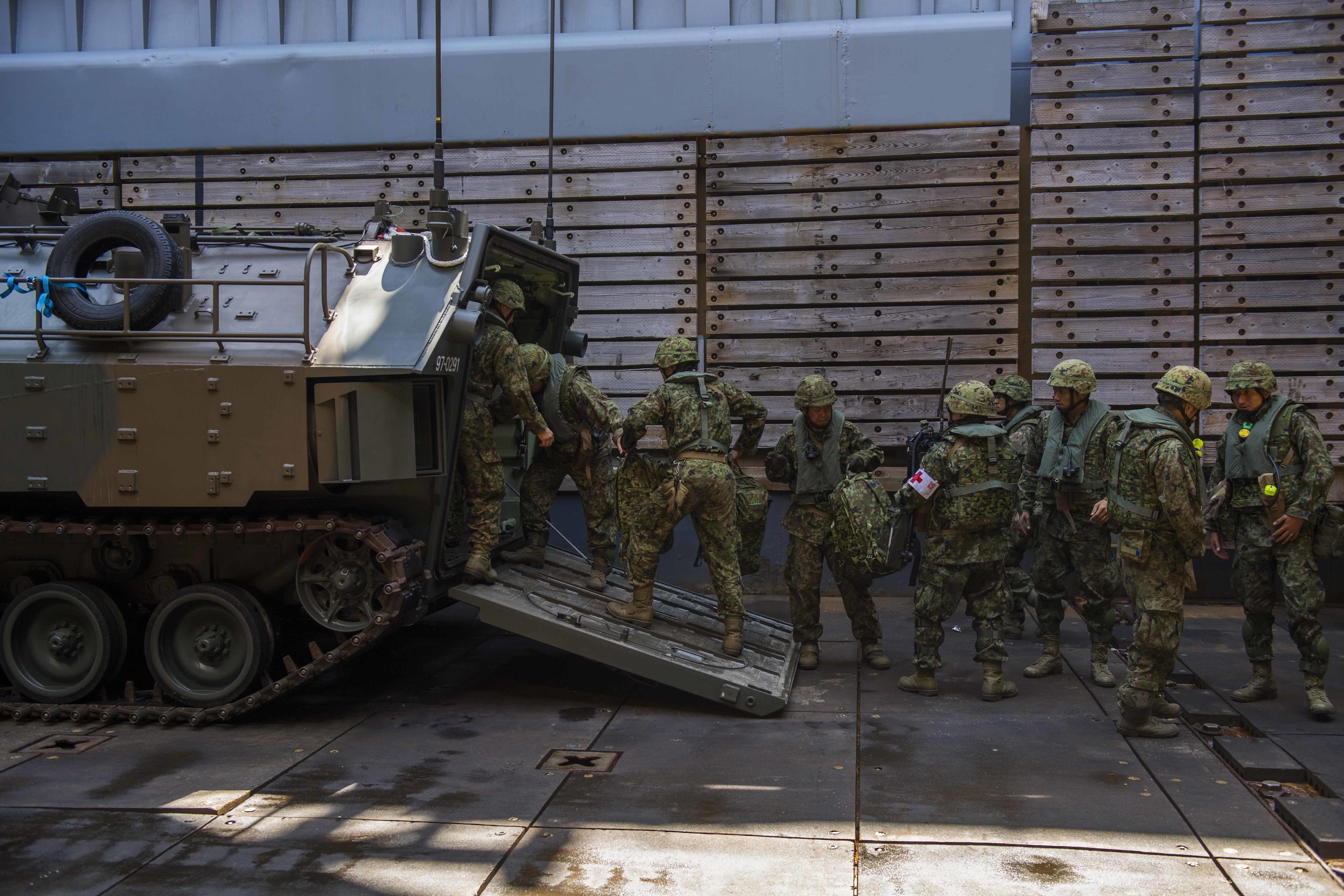 Soldiers from the Japan Ground Self-Defense Force (JGSDF) Amphibious Rapid Deployment Brigade (ARDB) load equipment inside an AAV-P7/A1 assault amphibious vehicle as they prepare to depart the amphibious dock landing ship USS Ashland (LSD-48) on OCt. 9, 2018.